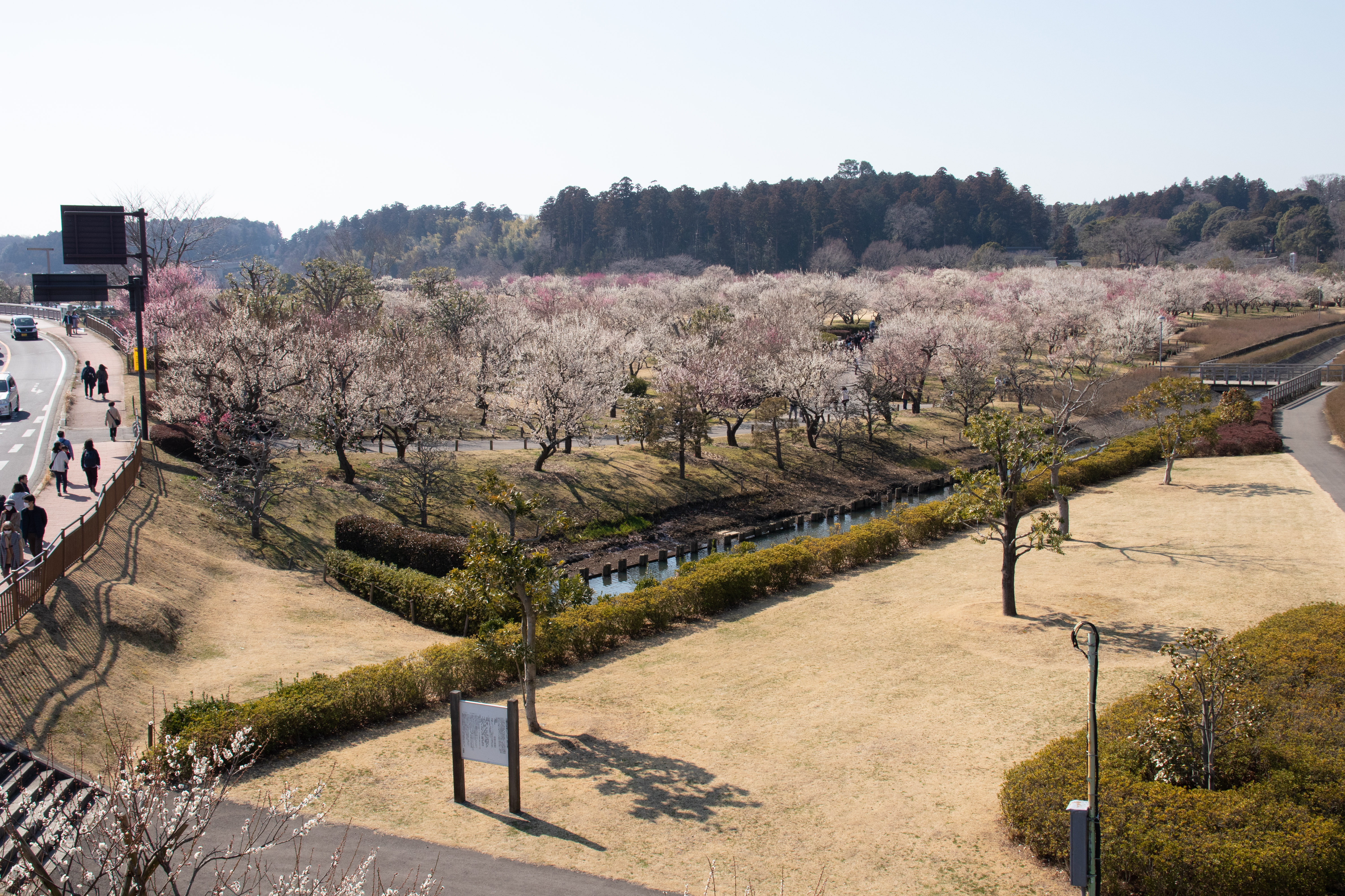 Mito-no-ume Matsuri Festival in Kairaku-en, Mito City, Ibaraki Pref., Japan